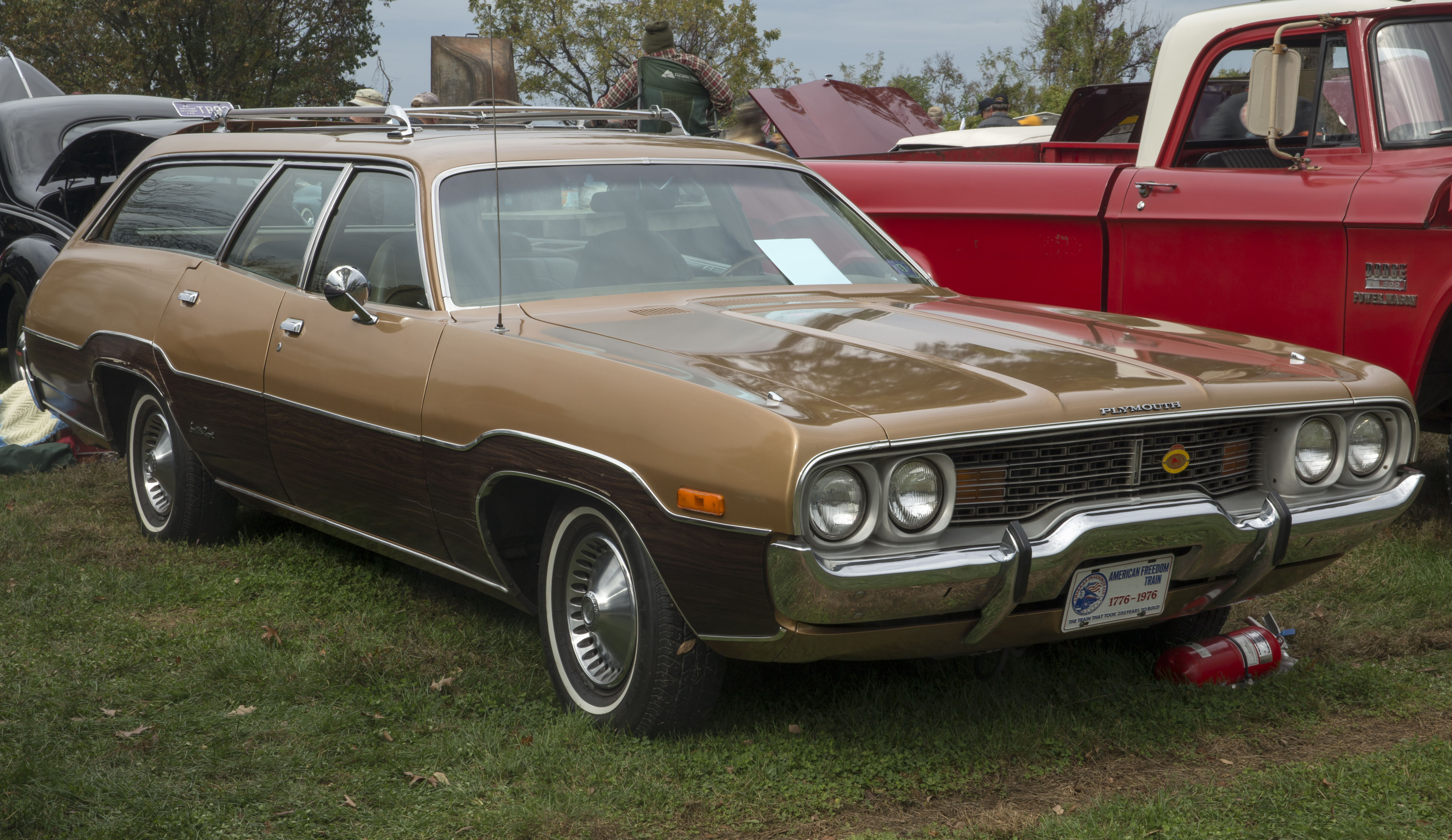 1972 Plymouth Satellite Regent station wagon in the show area at Hershey 2019. V8 engine.